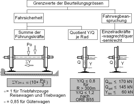 The figure shows the threshold values for riding safety and permanent way stress caused by railway wheel sets